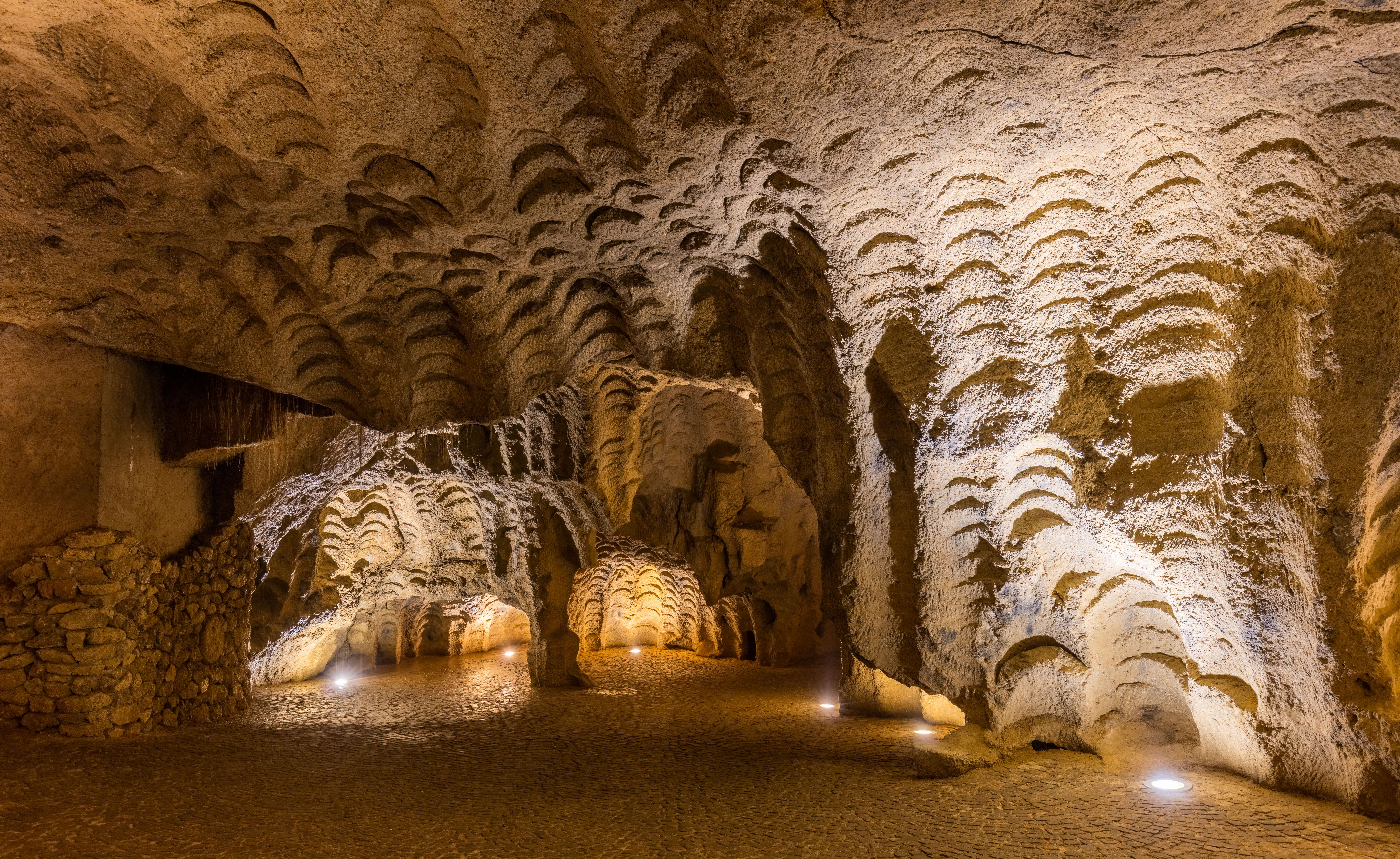 The Caves of Hercules are of archeological, historical and mythological significance and are located 14 kilometres (9 mi) west of Tangier in Cape Spartel, in the North of Morocco. The cave is part natural and part-made, as the Berber people cut stone wheels from its walls (as you can appreciate in the image) to make millstones, expanding the cave considerably. The name is dedicated to Hercules as he is believed to have slept in the cave before doing his 11th labour, which was to get golden apples from the Hesperides Garden.